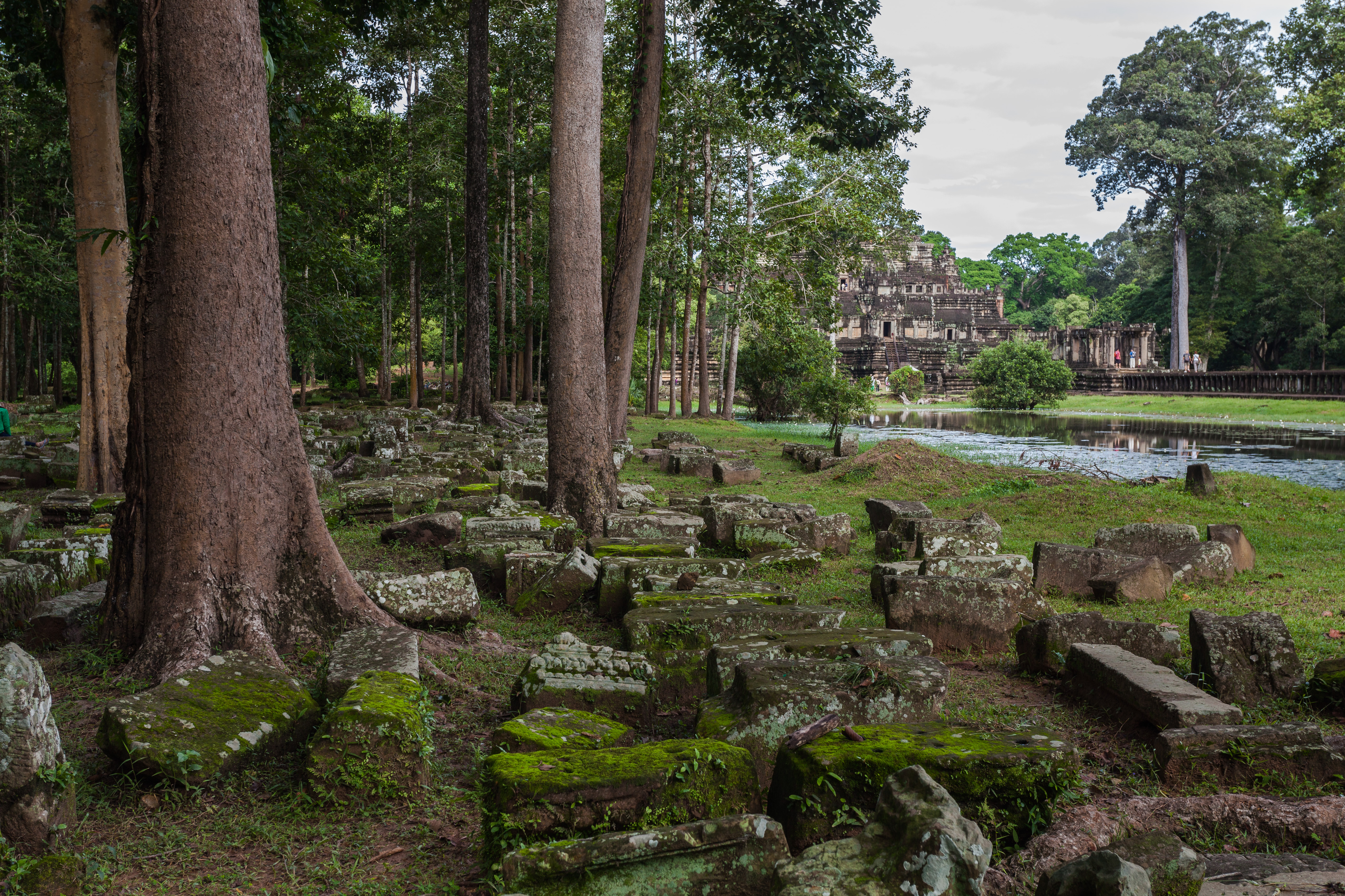 Baphuon, Angkor Thom, Cambodia